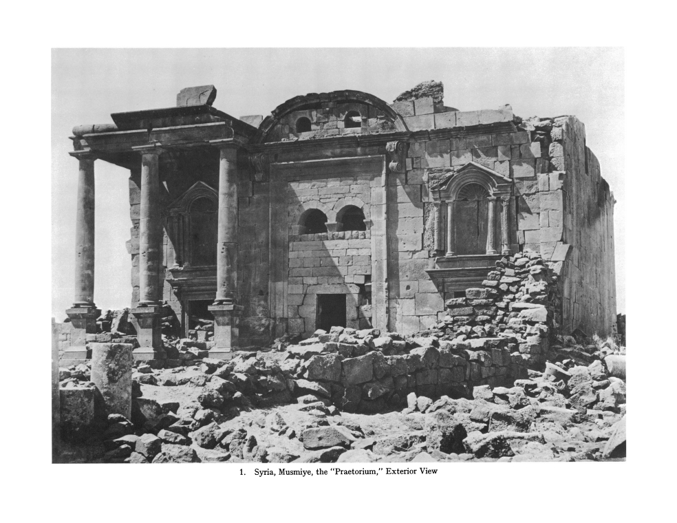 Syria, Musmiye, the "Praetorium", Exterior View.